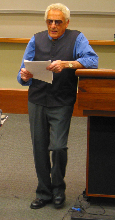 Photo by Tim Bergeron from en wikipedia original uploader